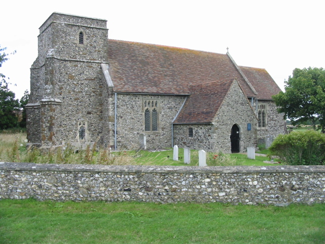 The church of St Mary, Capel-Le-Ferne Not used for regular worship but it remains a consecrated building.